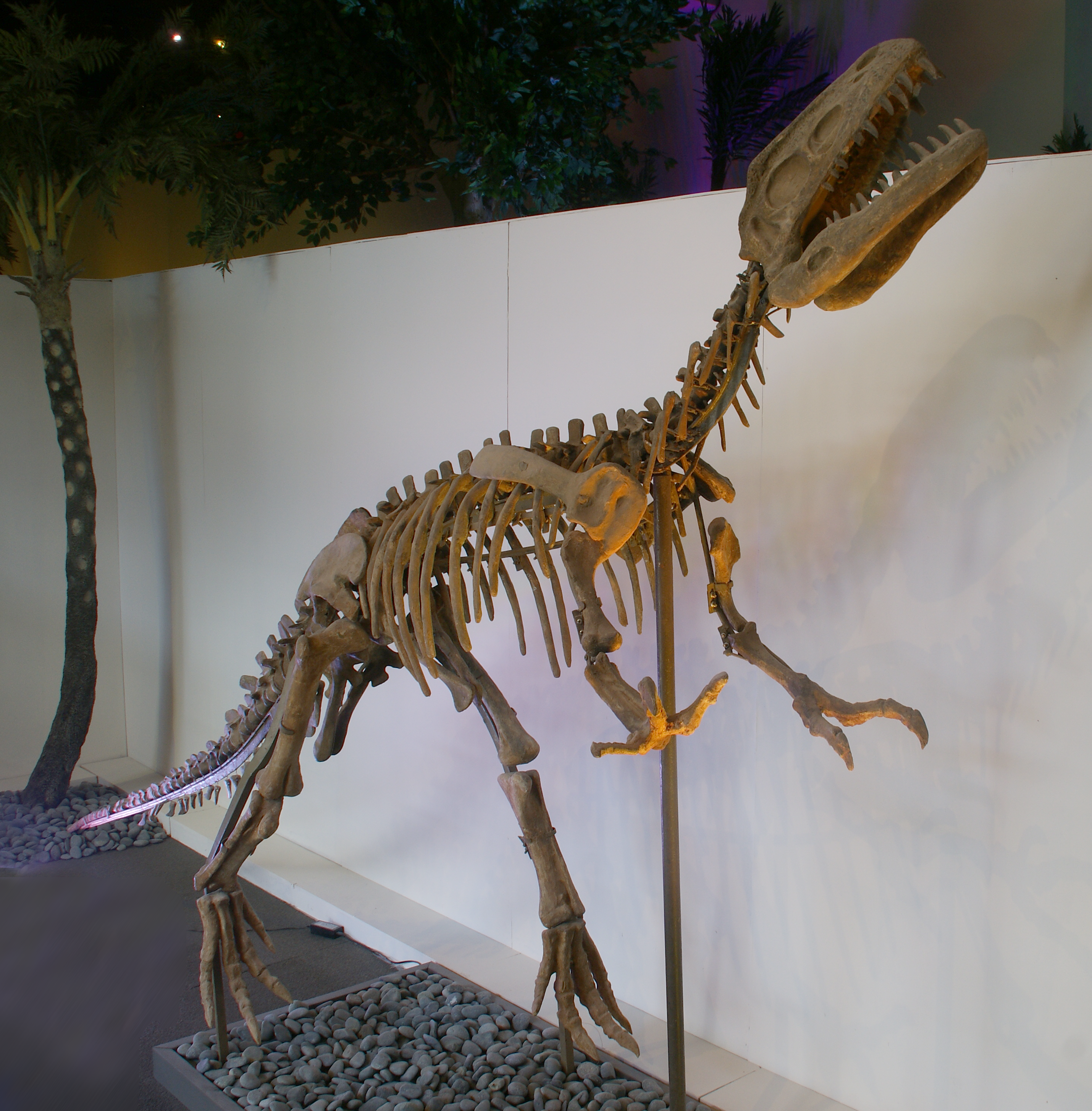 Gasosaurus fossil specimen excavated near Dashanpu, Sichuan province, China. It lived in the mid-Jurassic period (164 million years ago). The fossil was on display as part of a touring exhibition "Dinosaurs Unearthed" shown at Bishop Museum, Honolulu, Hawaii